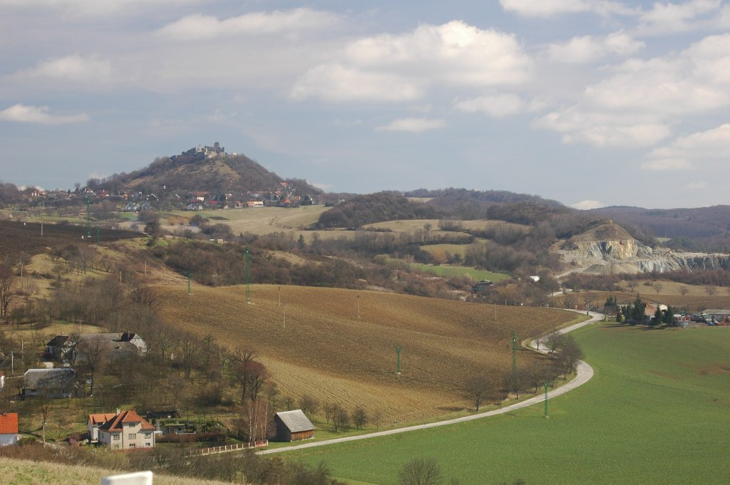 Podranč, view from the west